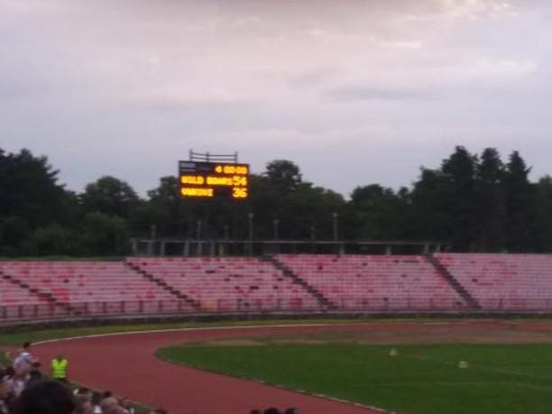 Serbian Bowl XIV (Wild Boars-Vukovi)